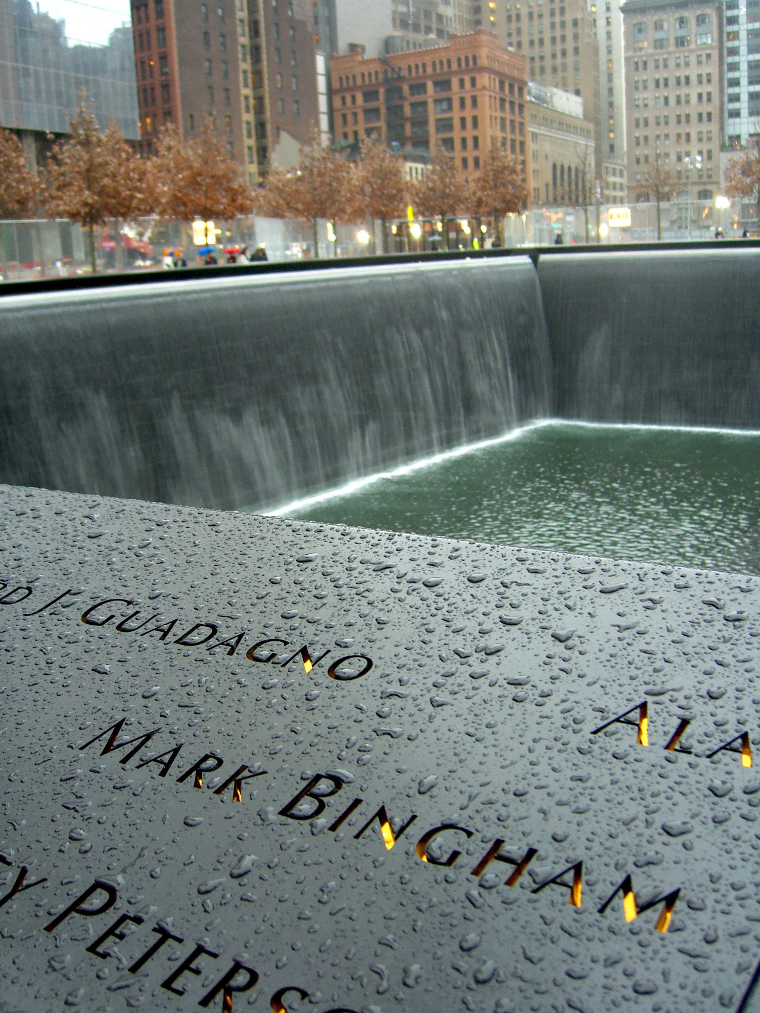 The name of Mark Bingham is seen among those of other 9/11 victims from United Airlines Flight 93 inscribed on bronze panel S-67 of the South Pool of the National September 11 Memorial in Manhattan, on December 6, 2011. This photo was created by Luigi Novi. If you have any questions, you can contact me by sending me an email or User talk:Nightscream